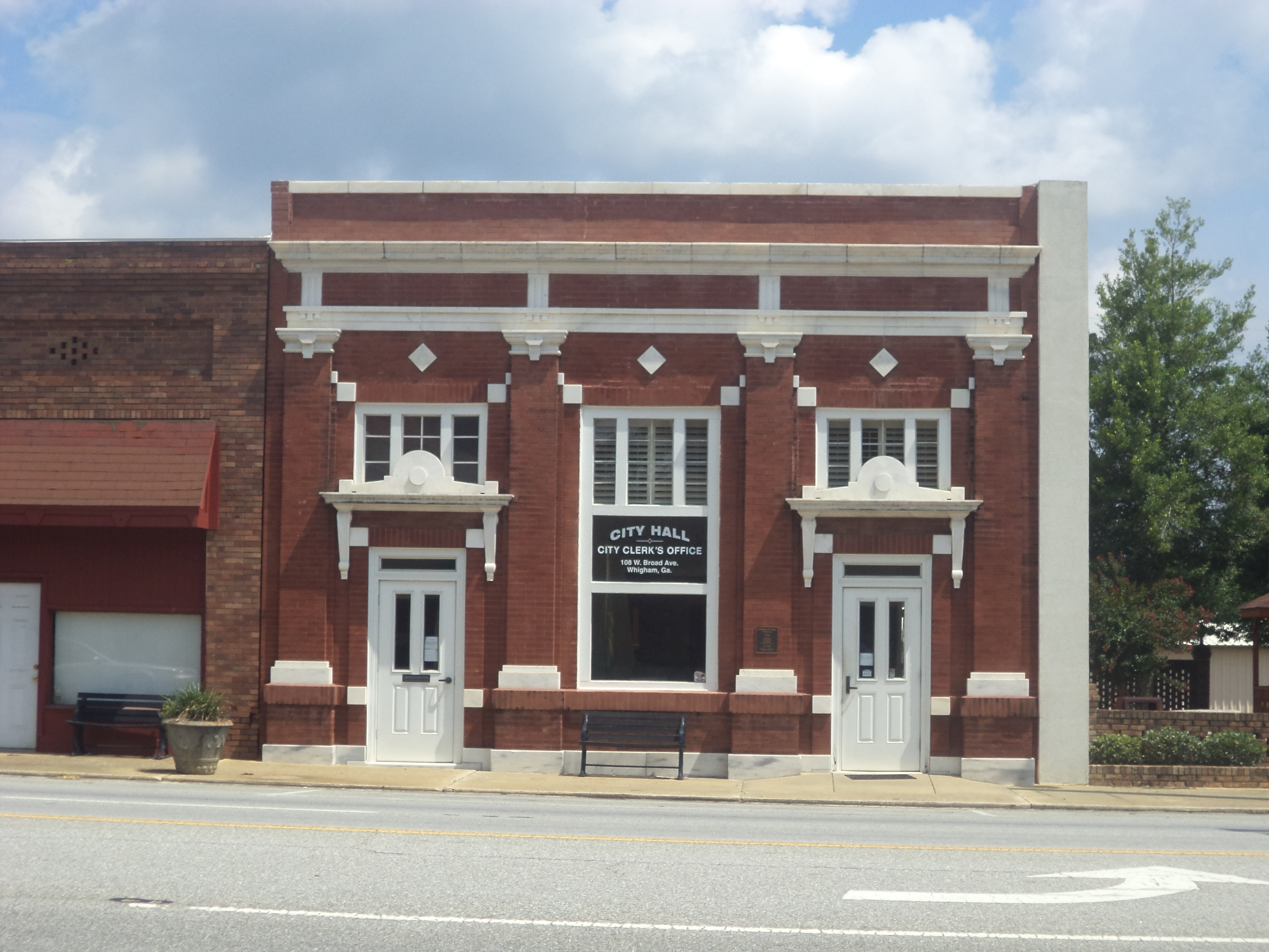 Whigham City Hall, 108 W. Broad St, Whigham, Grady County, Georgia